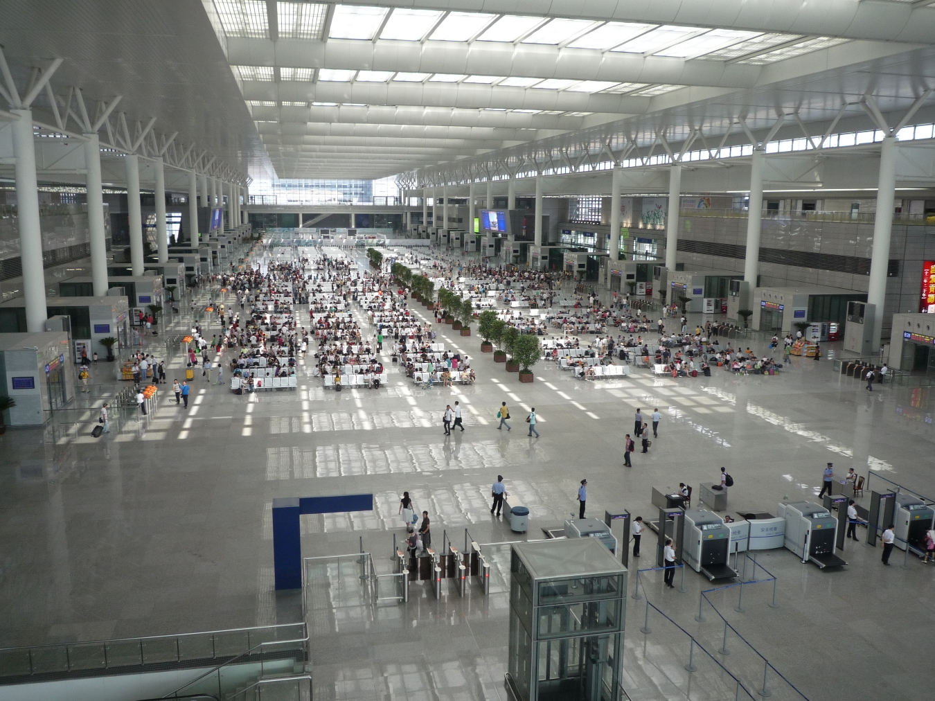 Waiting hall of the Shanghai Hongqiao Railway Station